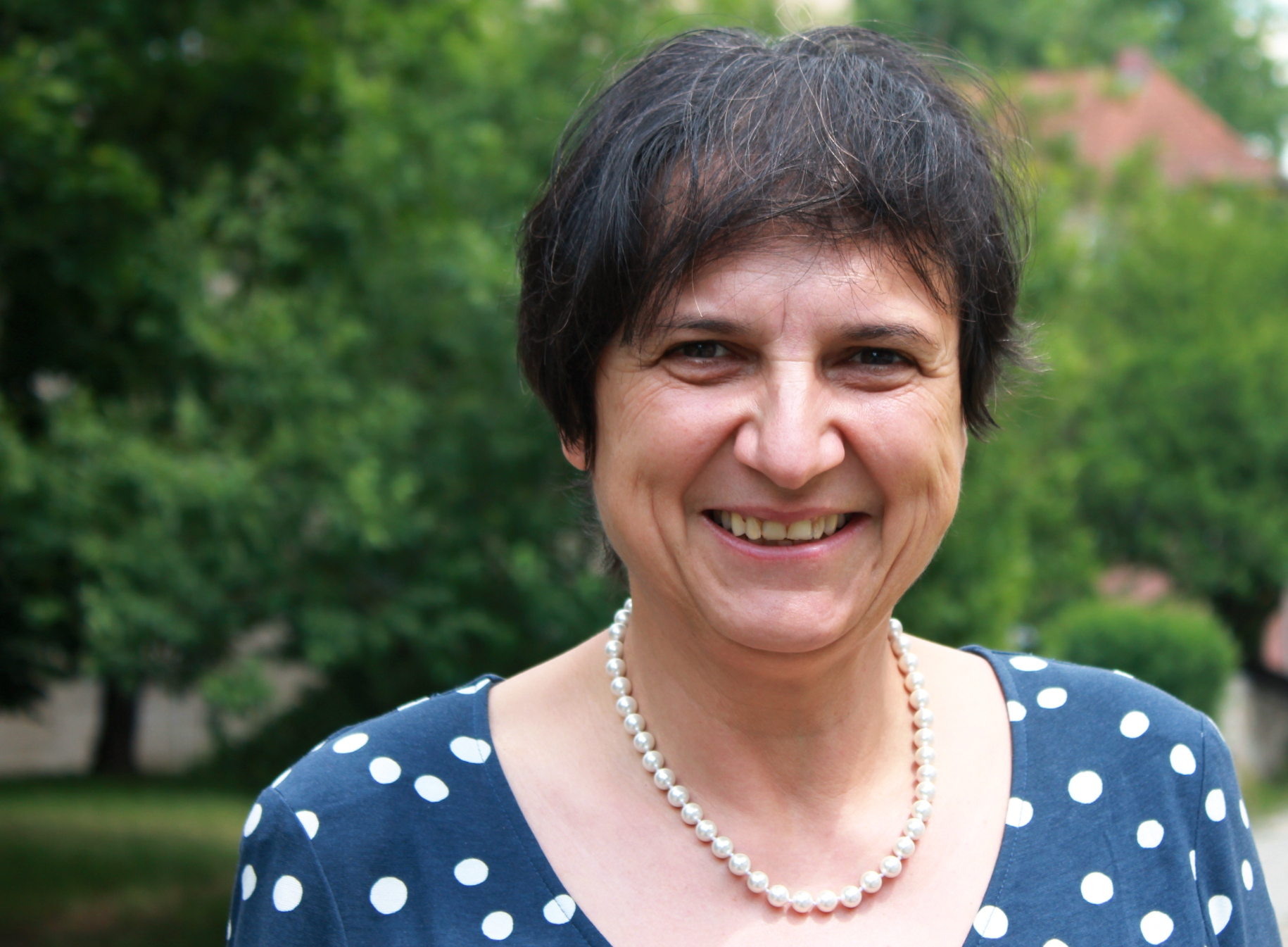 Petra Heß